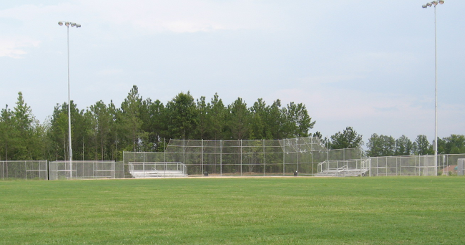 NE Park ballfield